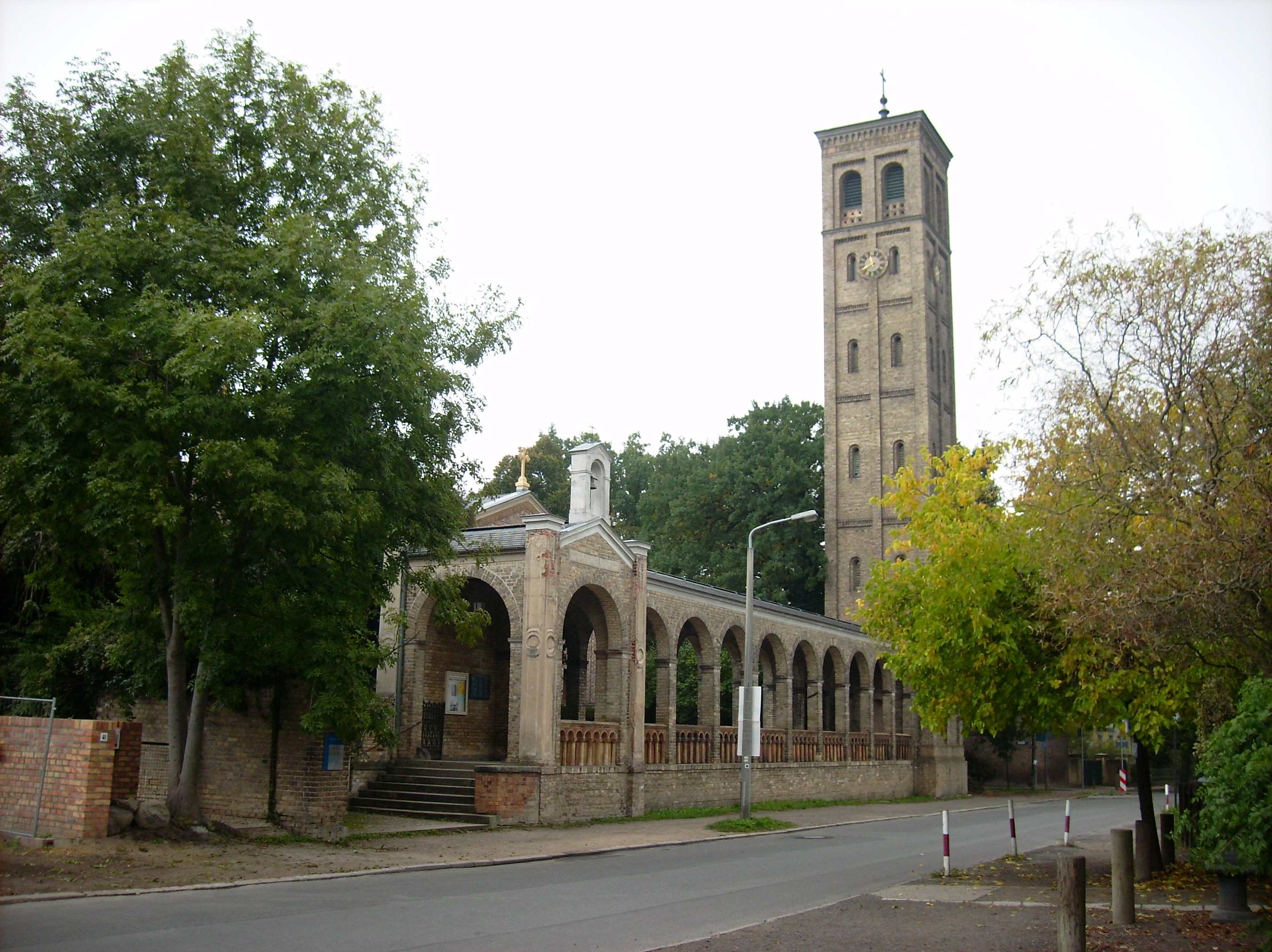 Arcade an belfry at the Bornstedt cemetery (Potsdam)